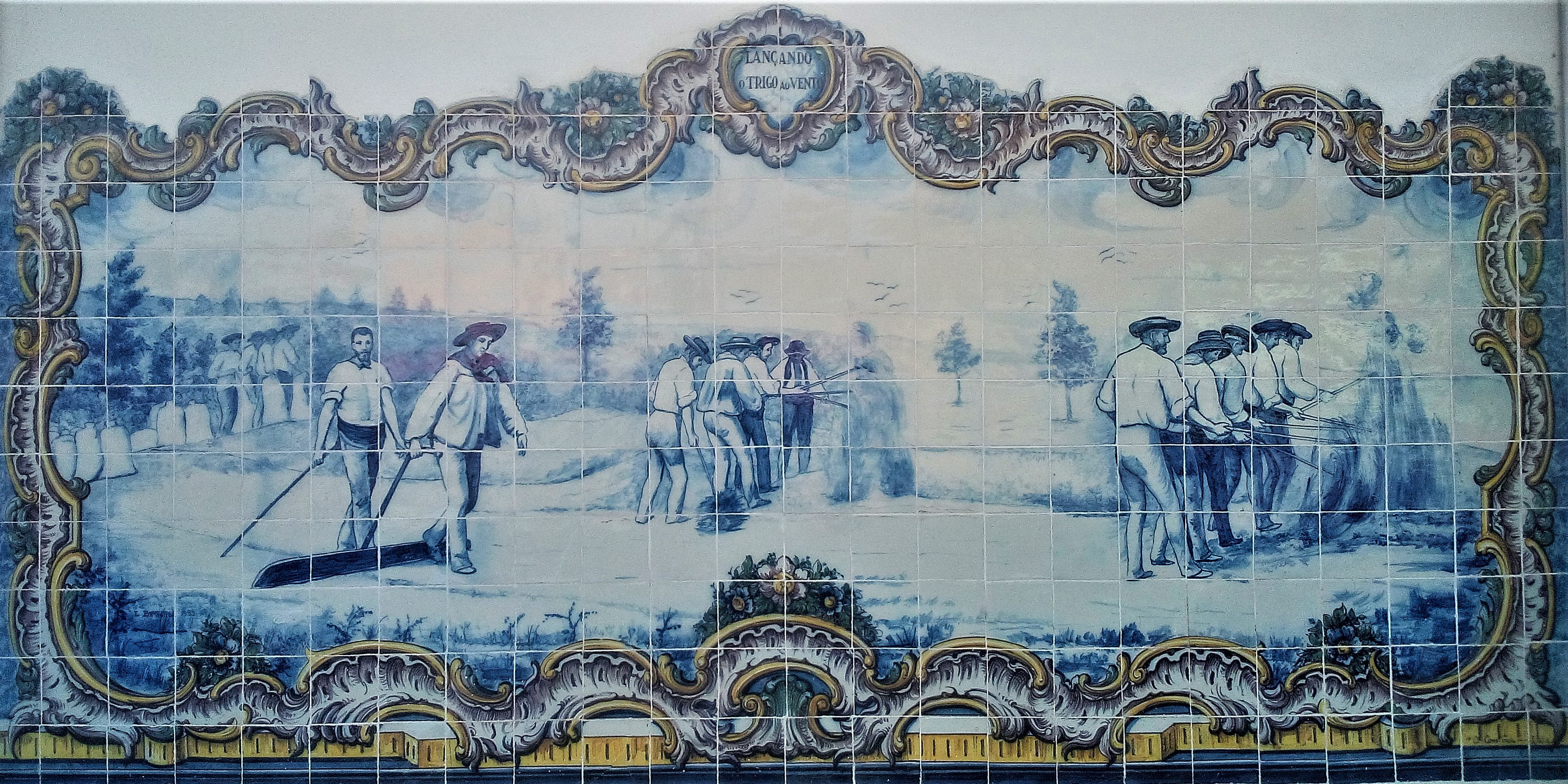 "Throwing the wheat in the wind", panel of "azulejo" representing a typical rural scene from Alentejo region, at the Elvas Railway Station